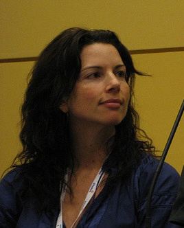 Gina Bianchini